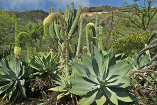 Foxtail Agave you will see on the trail in Koko Crater Botanical Garden.